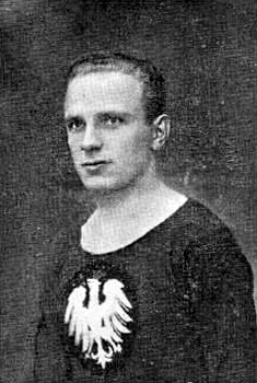 Ludwik Szabakiewicz, polish football player